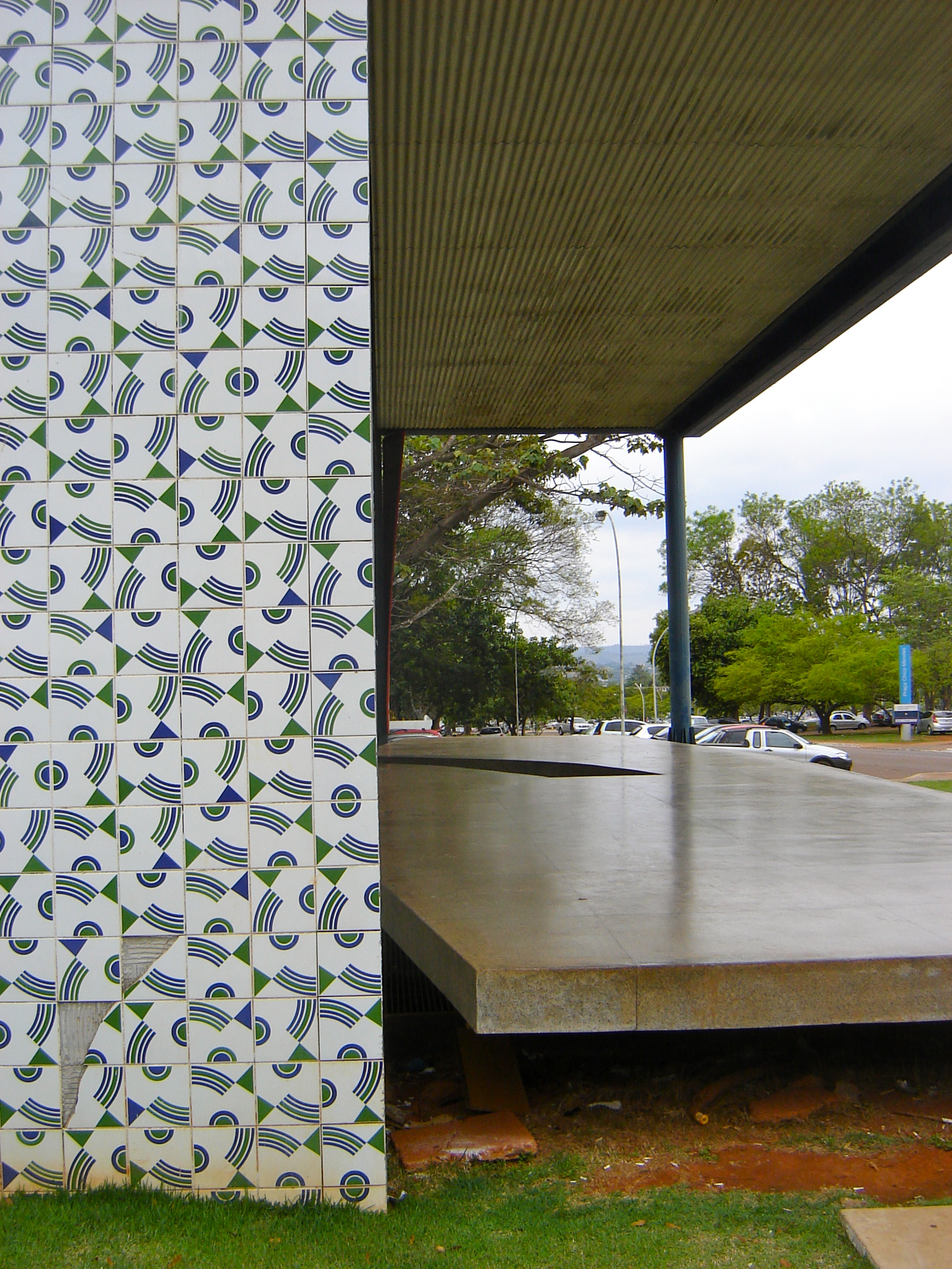 Tile pattern designed by brazilian artist Athos Bulcão at the University of Brasília Institute of Arts in Brazil.